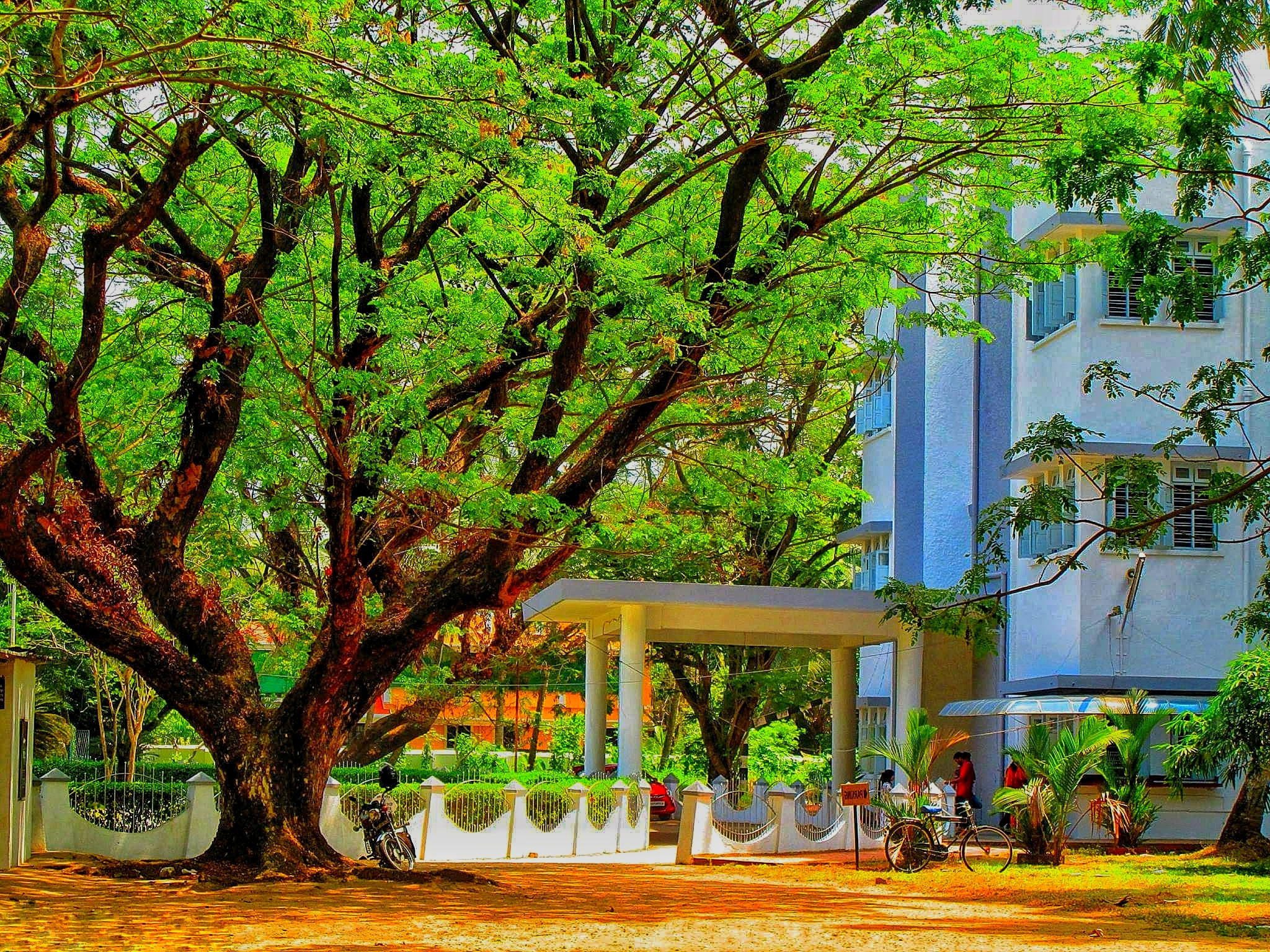 The front view